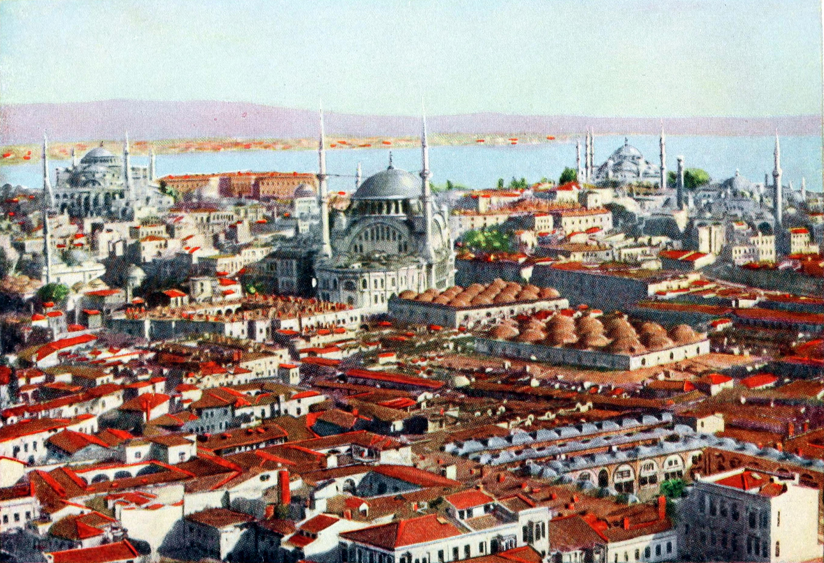 Color photograph of Istanbul with the Bosporus in the background.